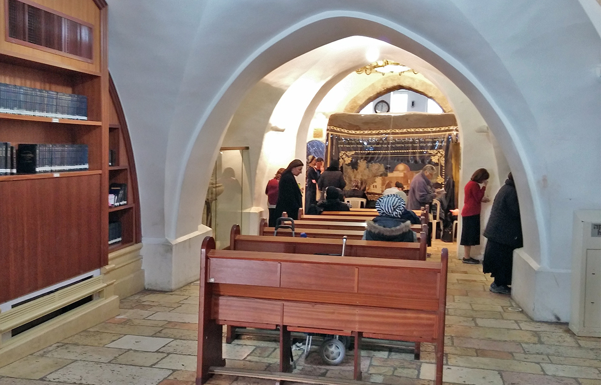 Rachel Tomb in Bethlehem